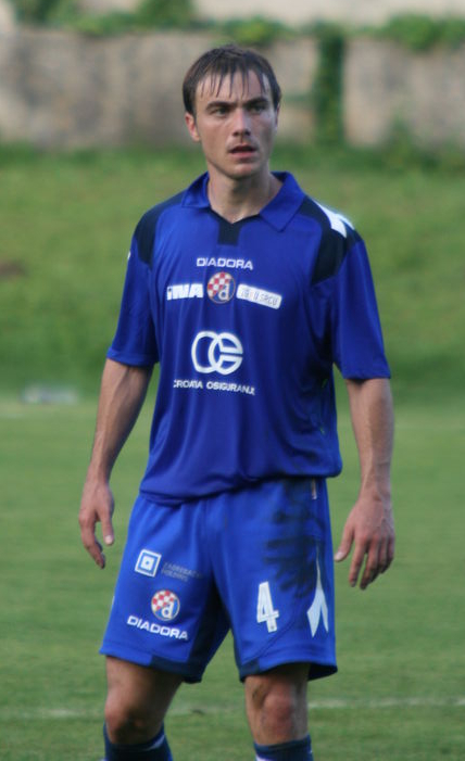 Leonard Mesarić, player of Dinamo from Zagreb during match in spring 2010